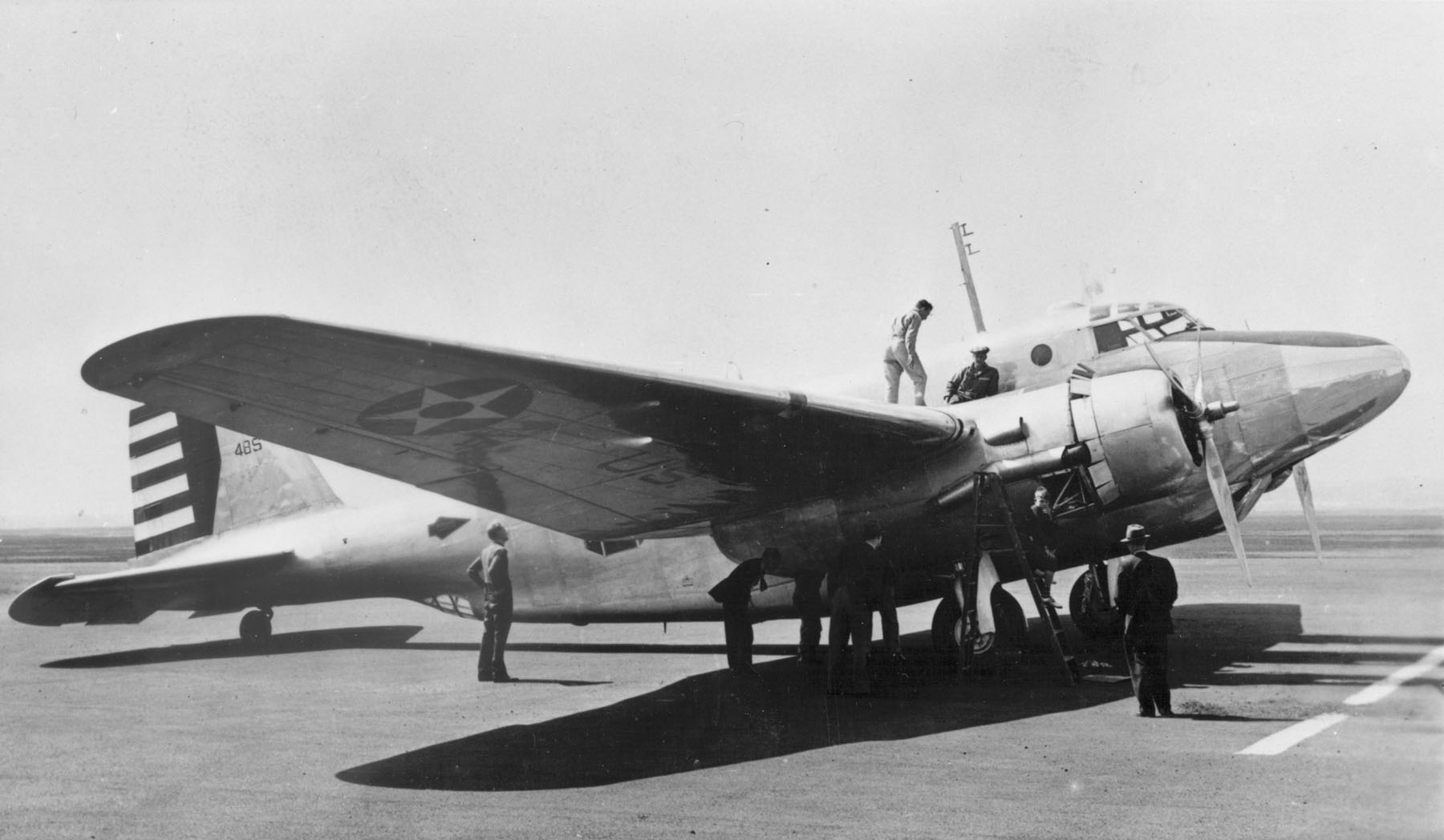 North American XB-21 (S/N 38-485) with solid nose.